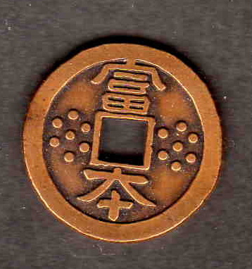 Fuhon-sen